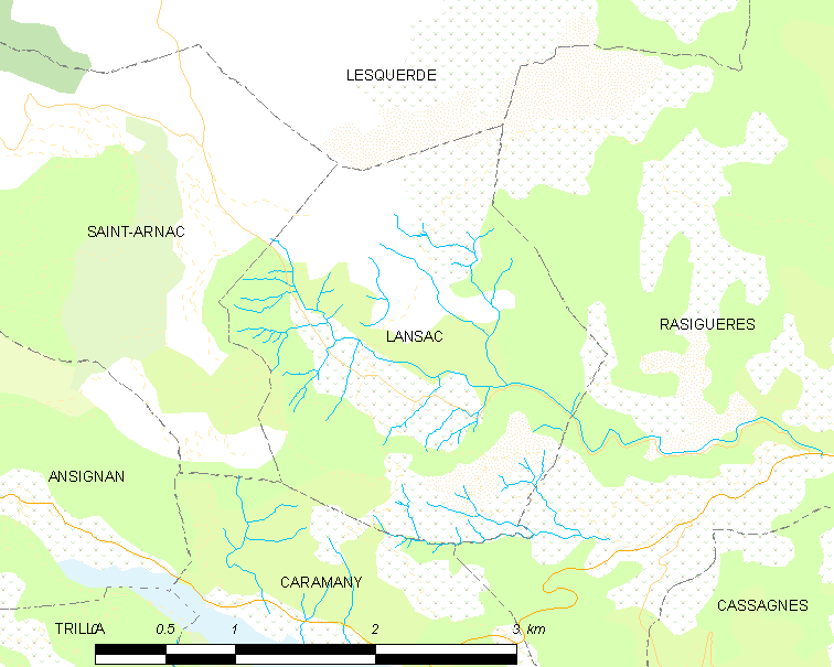 Map of French municipality